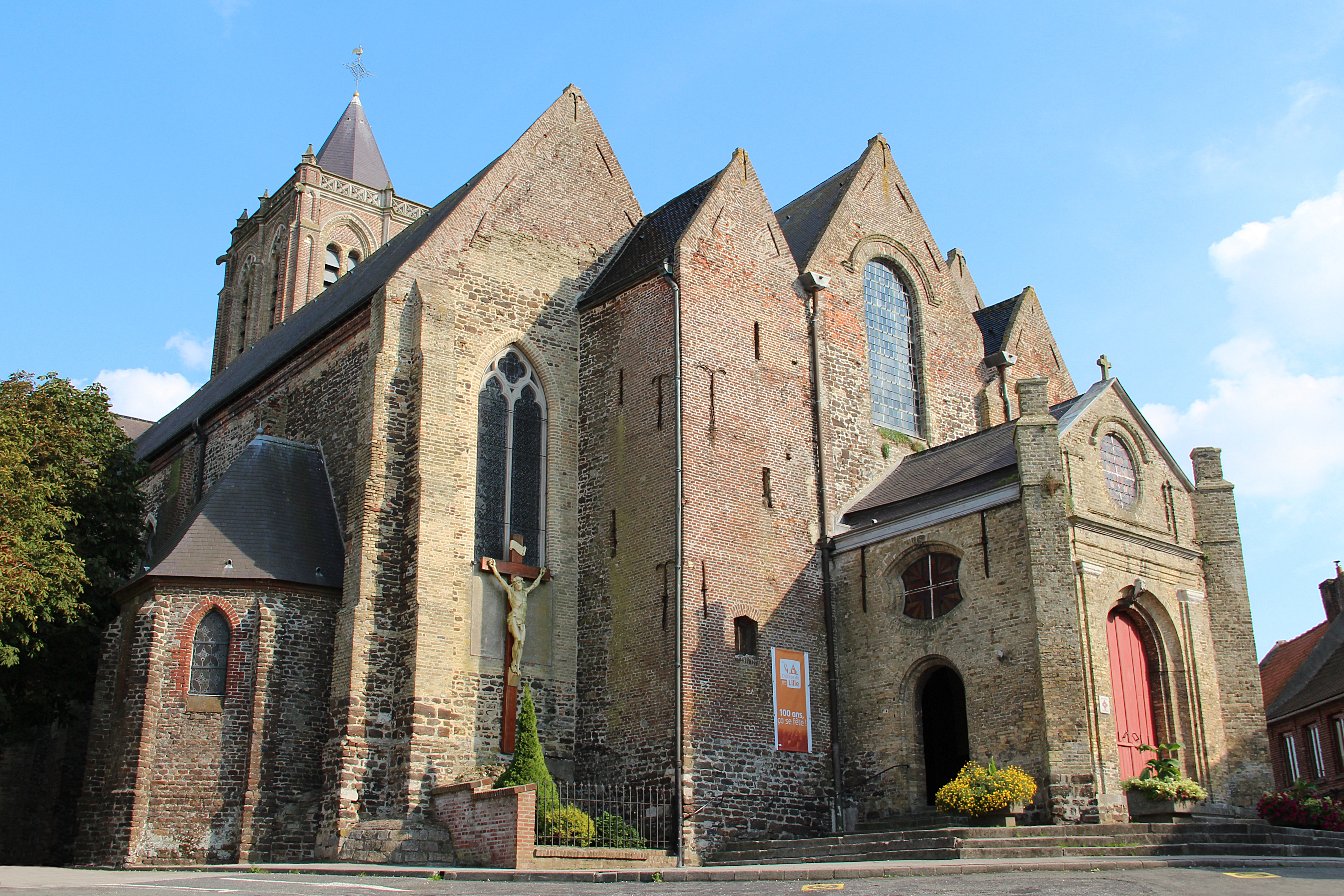 The Collegiate Church of Notre-Dame-de-la-Crypte seen from rue Notre-Dame in Cassel (Nord department, France).